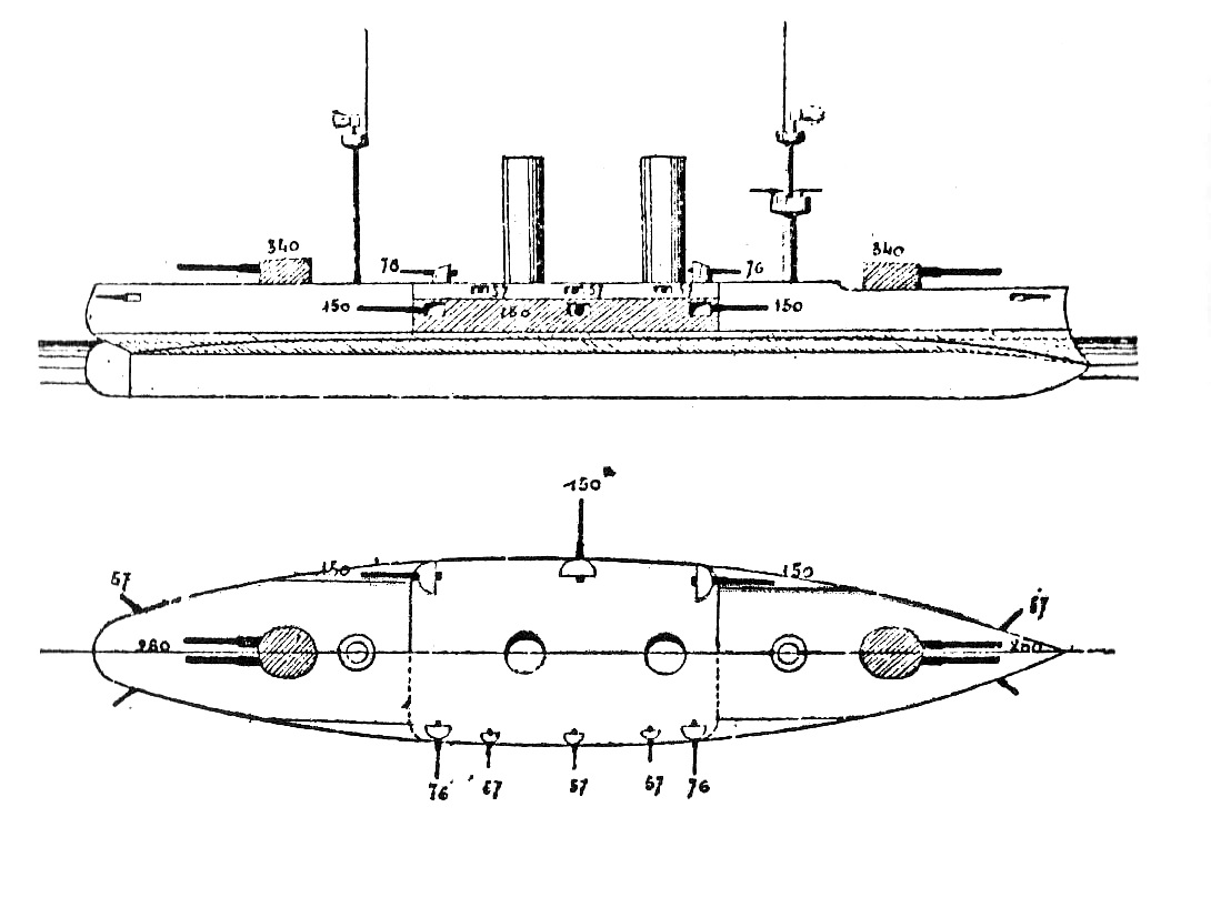 Scan of a plan and side view of the Turkish battleship Abdul Kadir from the 1904 issue of Flottes de Combat.